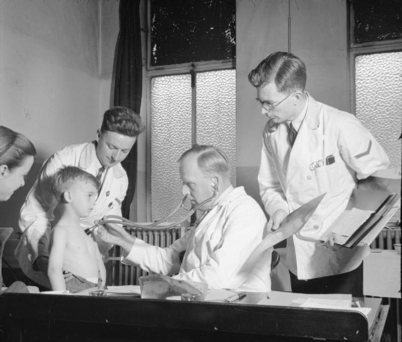 Male Nurses- Life at Hackney Hospital, London, 1943 Male nurses assist during a chest examination as part of their training at Hackney Hospital in London. One nurse holds the young boy in the correct position as the doctor listens to his chest with his stethoscope. A second nurse shows the doctor an x-ray of the patient's chest. The boy's mother is just visible on the left of the photograph.